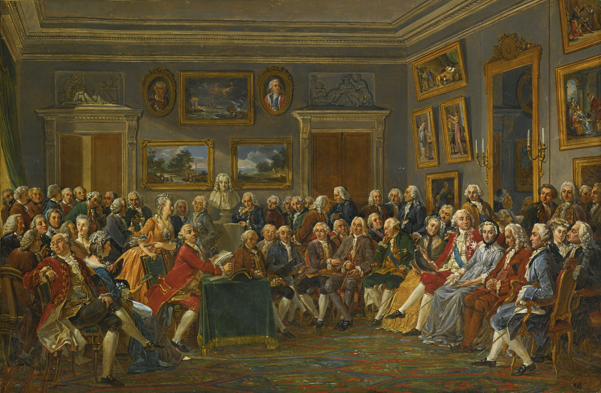 A READING OF VOLTAIRE'S TRAGEDY "L'ORPHELINE DE LA CHINE" IN THE SALON OF MADAME GEOFFRIN a label affixed to the canvas lower right: Société Académique des Enfants d'Apollon / II Coll.